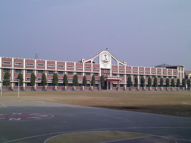 Hartmann College, Bareilly View from Basketball Court